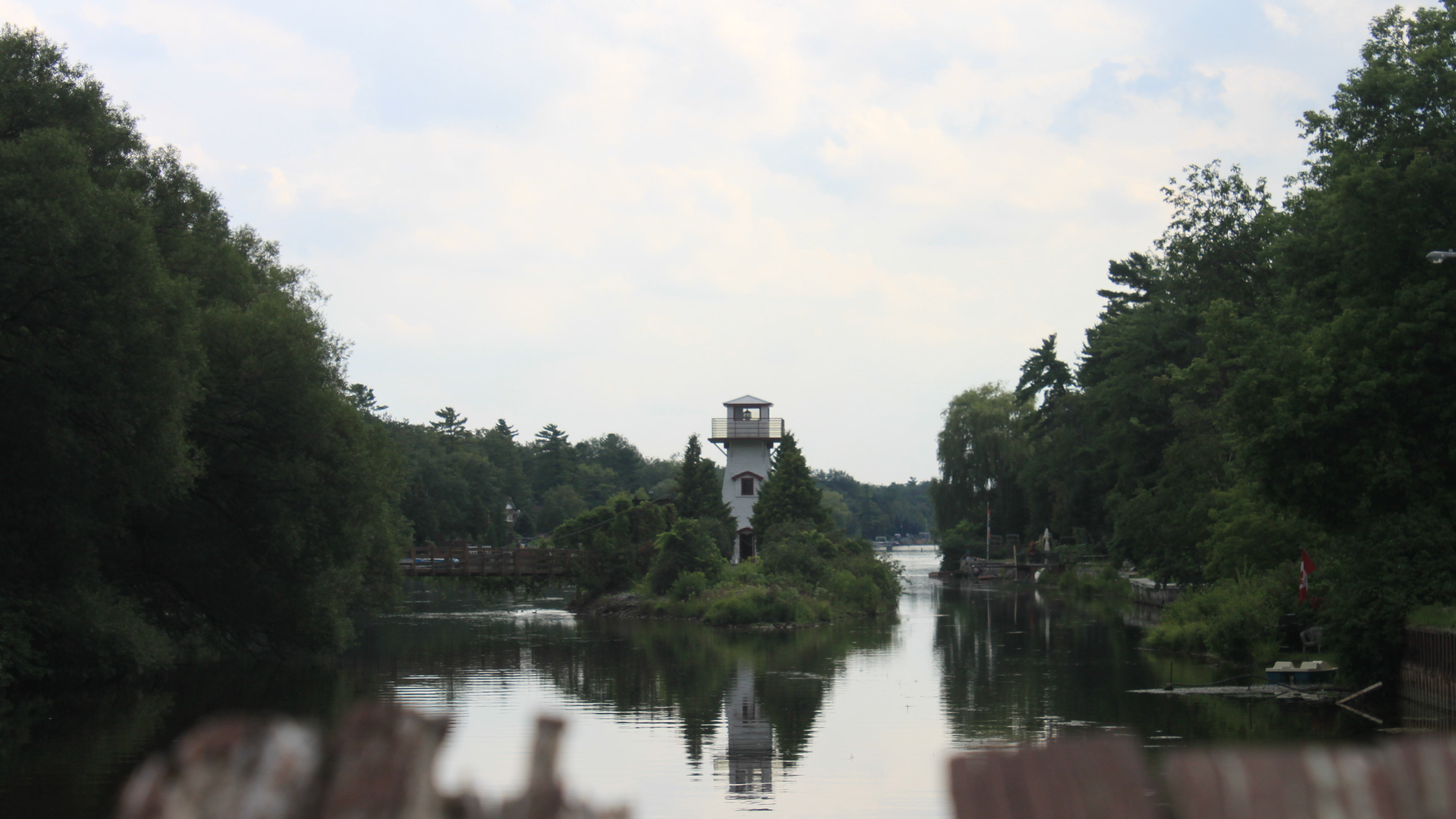 View from Main Street bridge south west to Nancy Island Museum